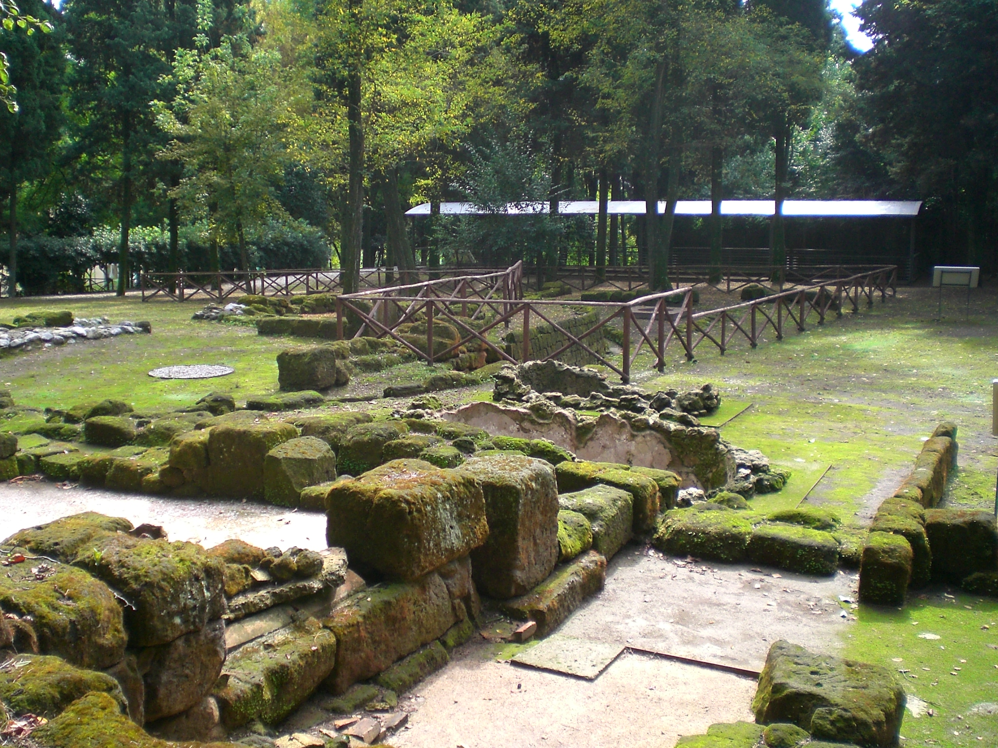 Archaeological area of Fratte, near Salerno